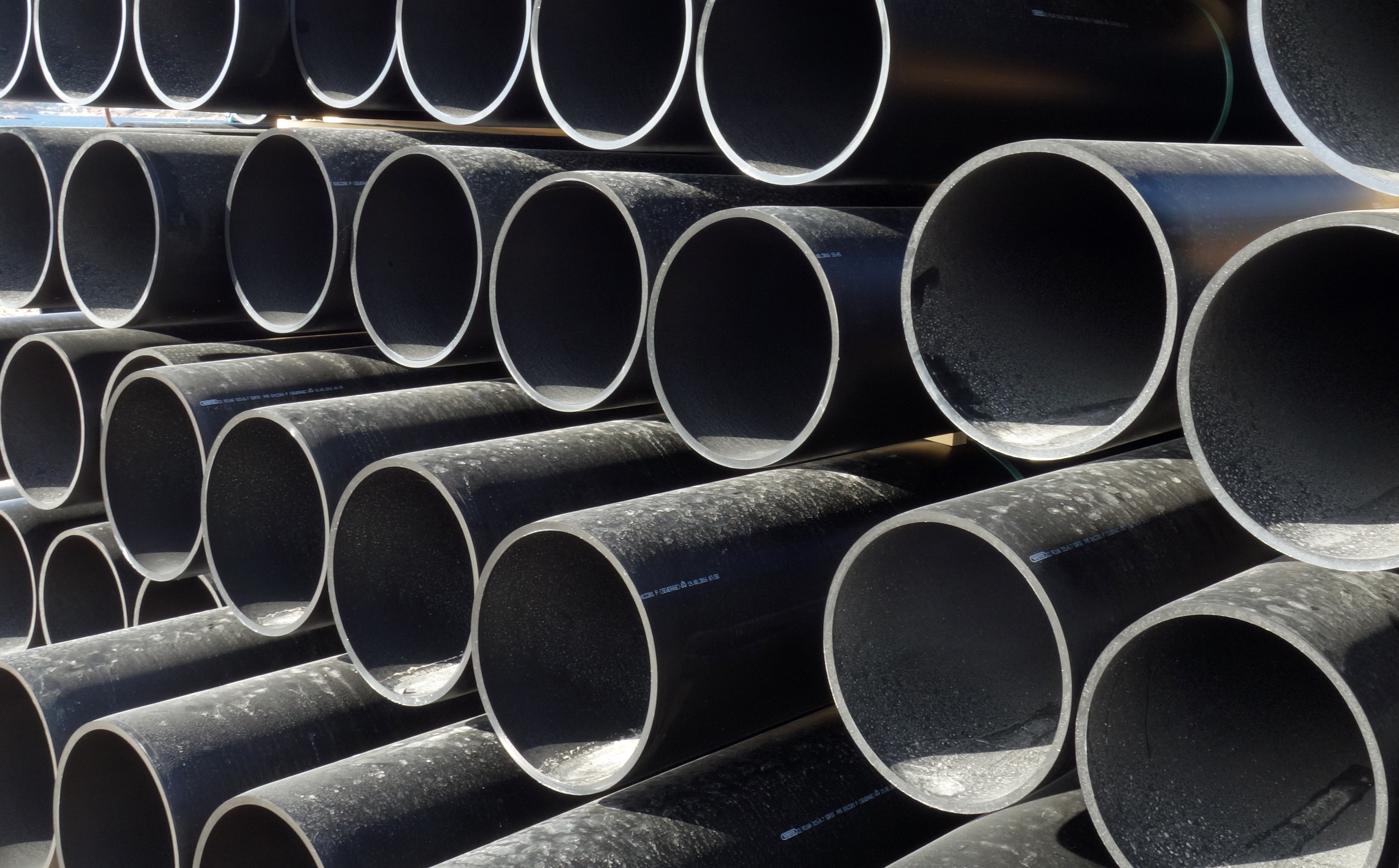 Large dusty black plastic pipes at Valbodalen marina in Lysekil, Sweden. The pipes are about 25-30 cm in diameter and made from hard plastic.